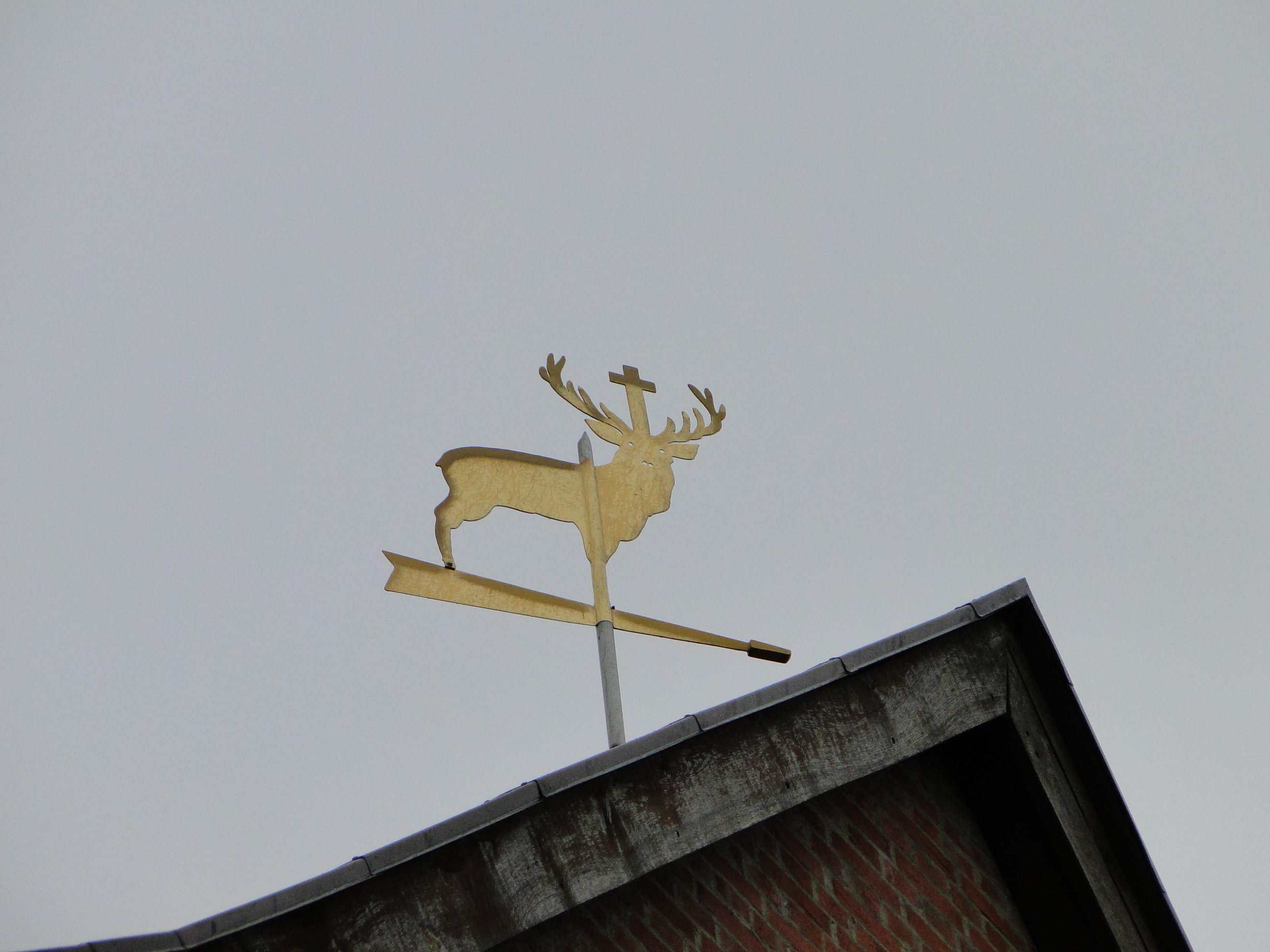 Weather vane at the top of the church tower in Woserin, district Parchim, Mecklenburg-Vorpommern, Germany